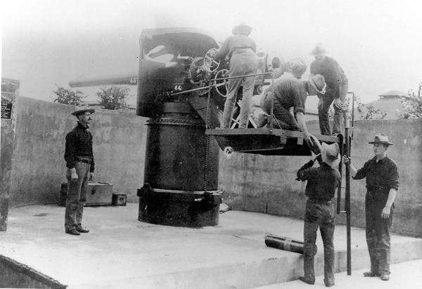 US Army Coast Artillery Corps 5-inch gun M1897 on Balanced Pillar Mount M1896. The gun and gunners platform rested on a telescoping tube which could be manually cranked up or down